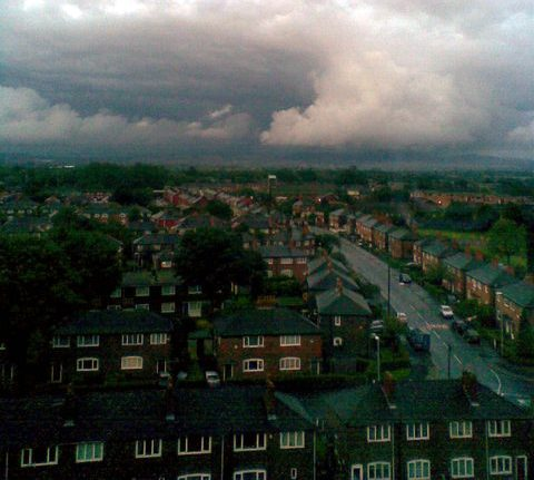 Newton Heath area of Manchester, England - looking towards the East